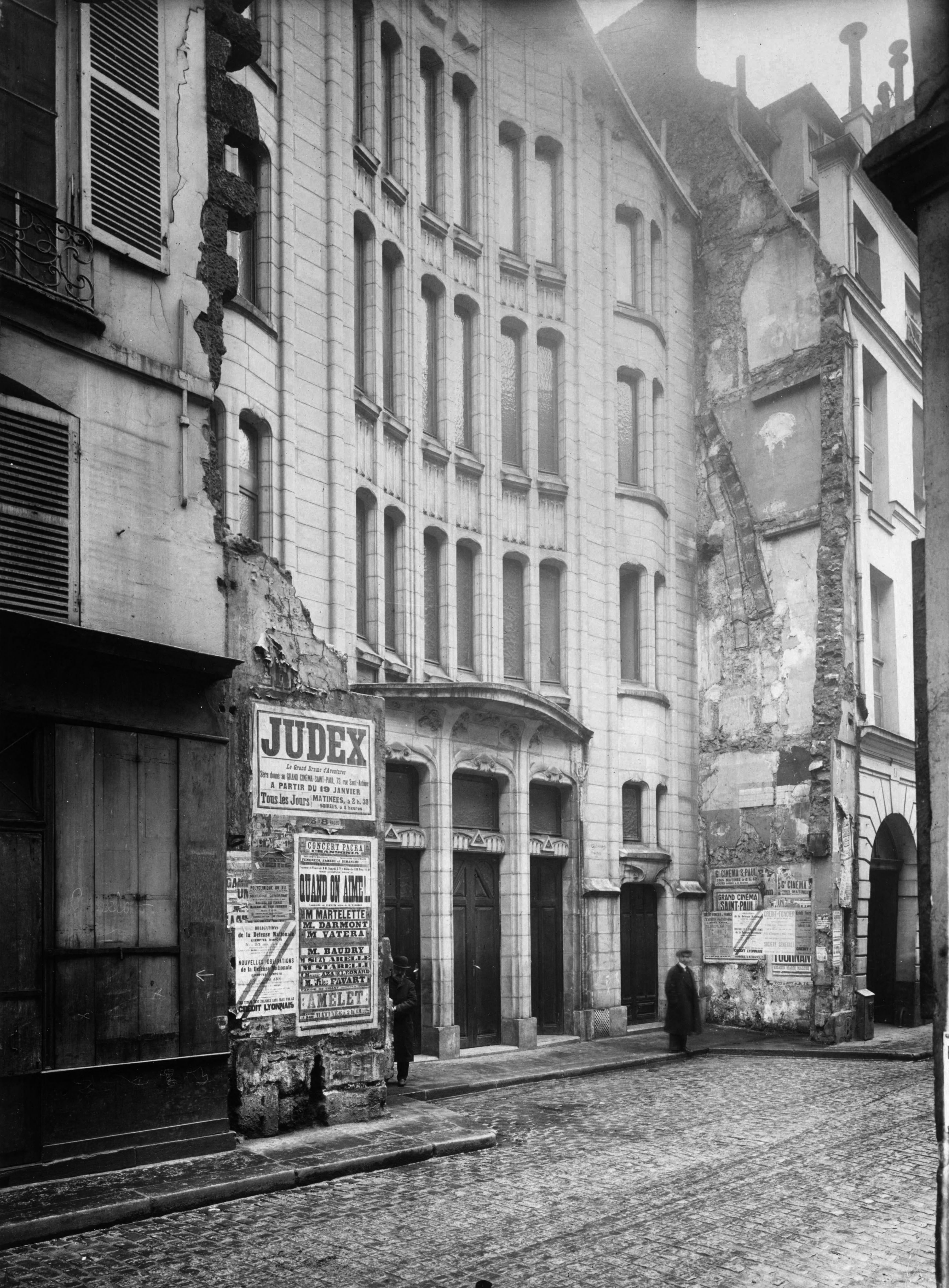 1917 photograph of the Agoudas_Hakehilos_Synagogue (rue Pavée, 10) of Paris. The building was projected by Art Nouveau architect Hector Guimard and built between 1913 and 1914. The photograph was taken by Charles Joseph Antoine Lansiaux.